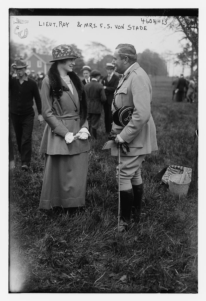 Bain News Service,, publisher. Lieut. Roy & Mrs. F.S. Von Stade [between ca. 1915 and ca. 1920] 1 negative : glass ; 5 x 7 in. or smaller. Notes: Title from data provided by the Bain News Service on the negative. Forms part of: George Grantham Bain Collection (Library of Congress). Format: Glass negatives. Repository: Library of Congress, Prints and Photographs Division, Washington, D.C. 20540 USA, General information about the Bain Collection is available at Higher resolution image is available (Persistent URL): Call Number: LC-B2- 4604-13